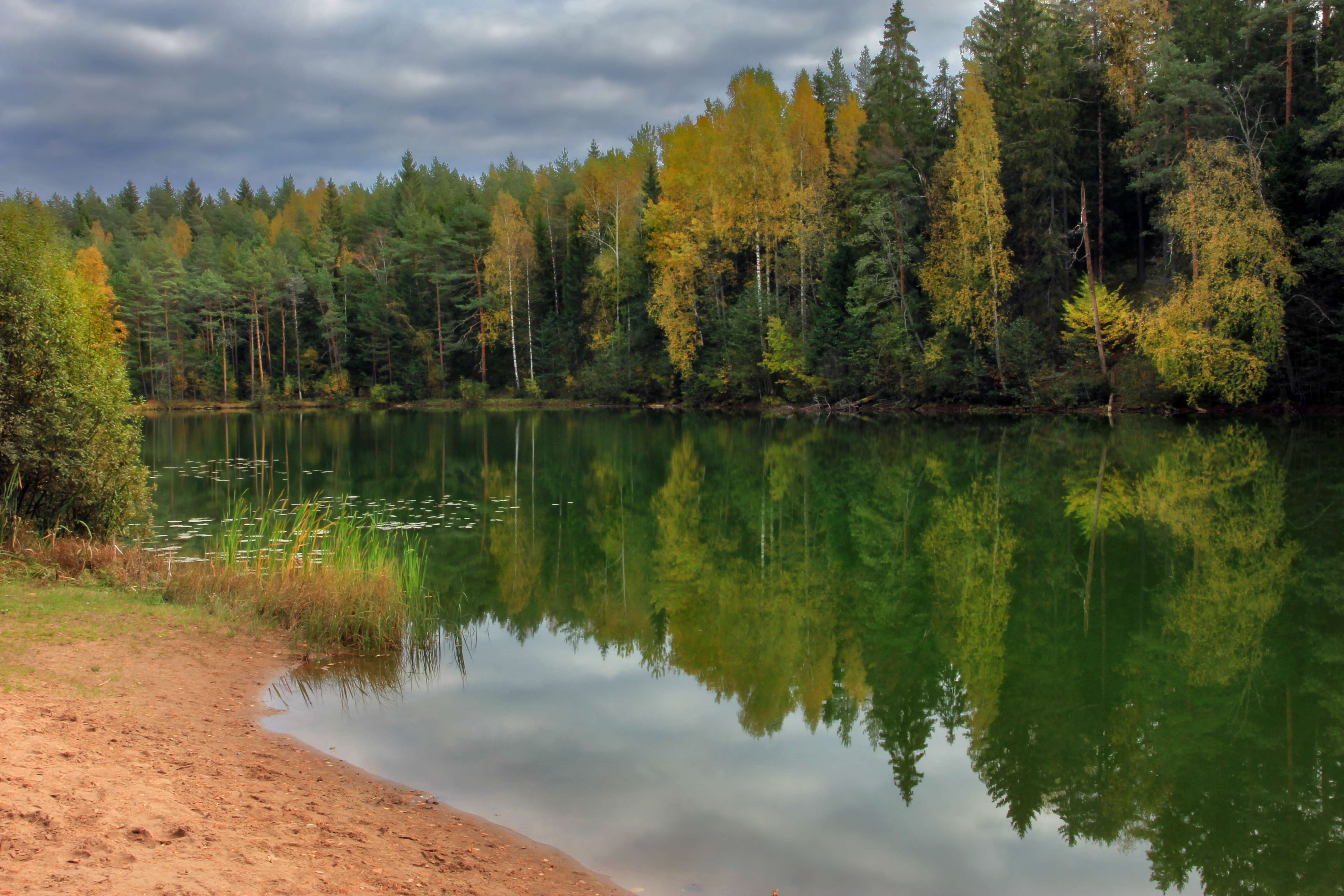 The Jõuga lakes in in Iisaku Parish, Estonia